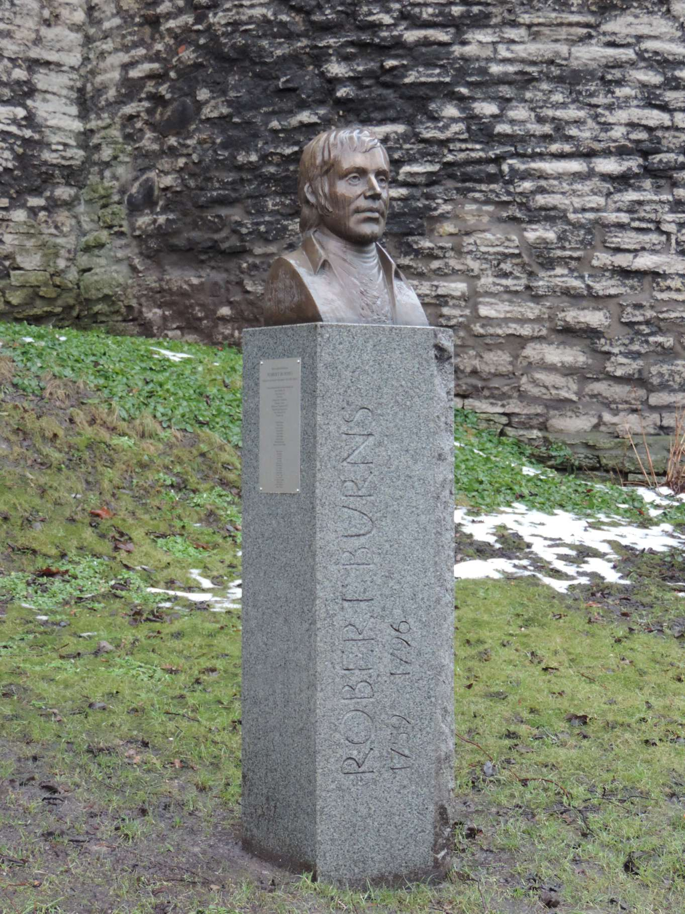 Statue of Robert BURNS, Scottish poet. Located at Šoti Park, Tallinn, Estonia.